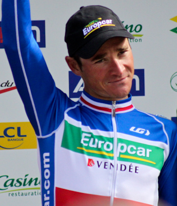 Thomas Voeckler wearing his 2010 French road-racing champion's jersey.